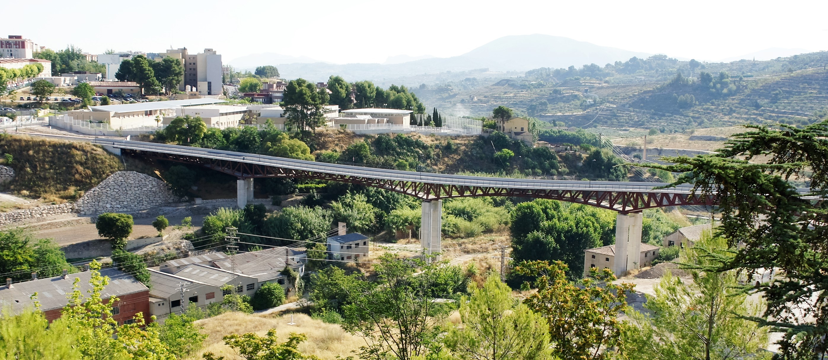 Puente de Francisco Aura Boronat sobre el río Serpis